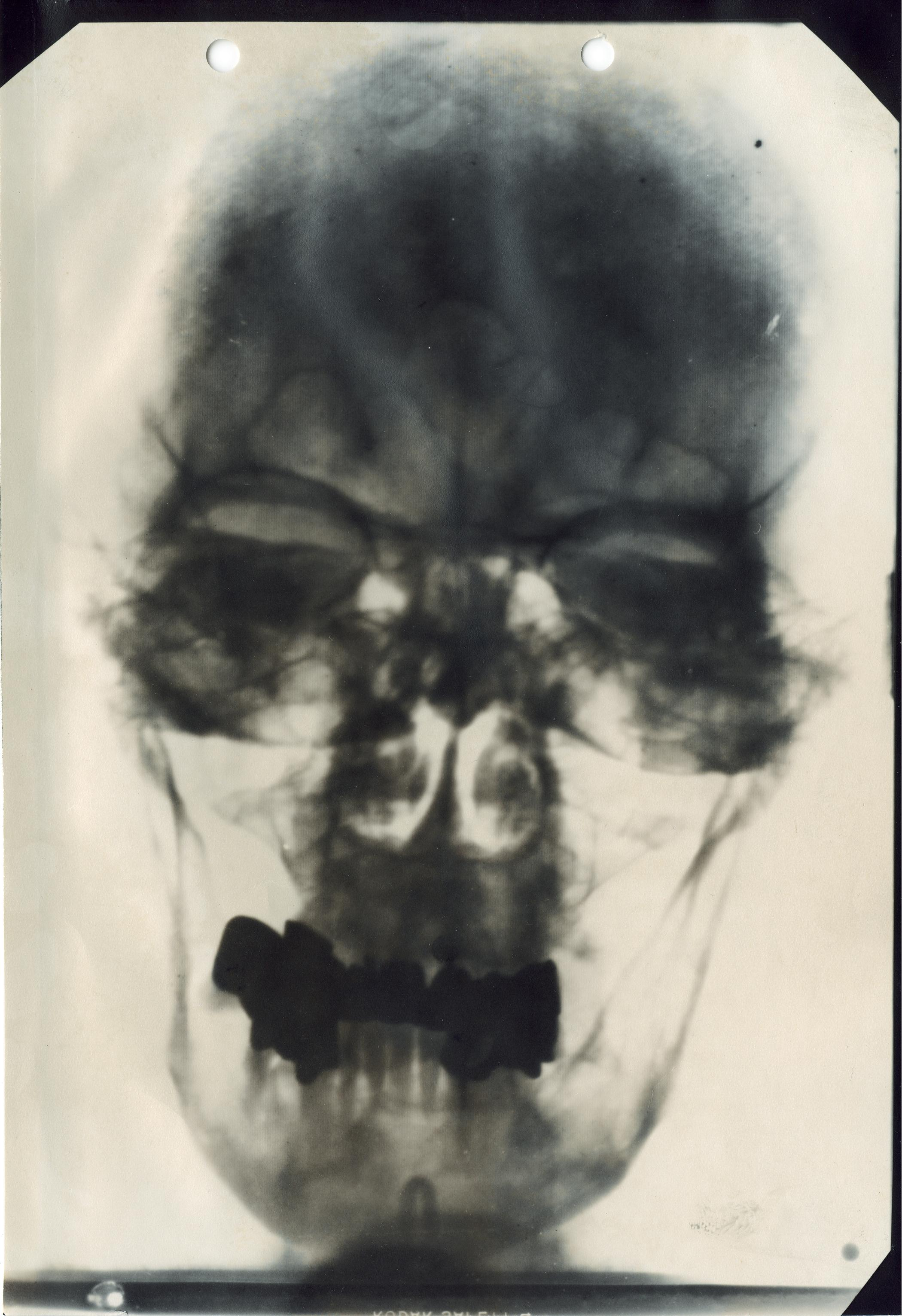 Appears In: United States. Army. Forces in the European Theater. Military Intelligence Service Center. Hitler as seen by his doctors. Image Description: X-ray image of Adolf Hitler's head. Hitler as seen by his doctors, between annex I and III. NLM Hidden treasure p. 195